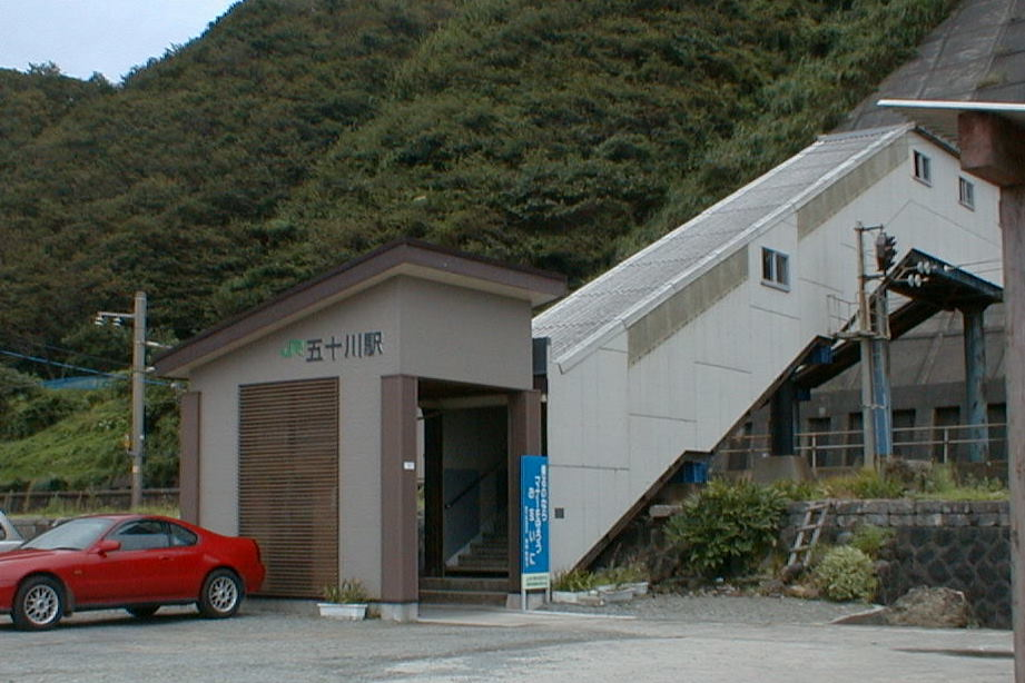 Iragawa Station on JR East Uetsu Line, in Tsuruoka city, Yamagata Prefecture, Japan